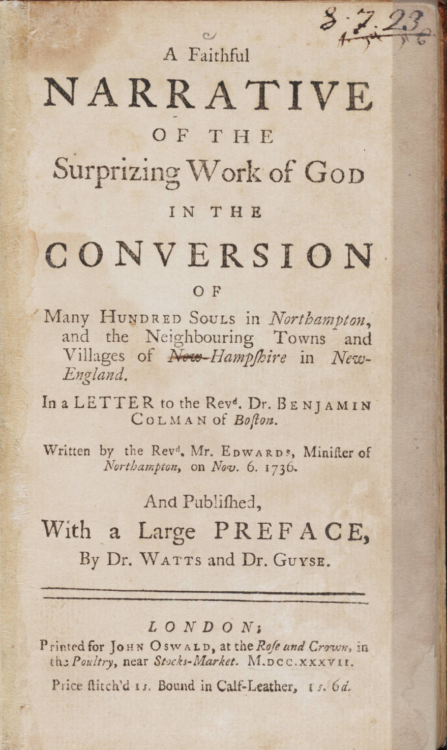 "A Faithful Narrative of the Surprizing Work of God in the Conversion of Many Hundred Souls in Northampton," by the Rev. Jonathan Edwards, printed for John Oswald, London, 1737. Courtesy of the Beinecke Rare Book & Manuscript Library, Yale University.[1]